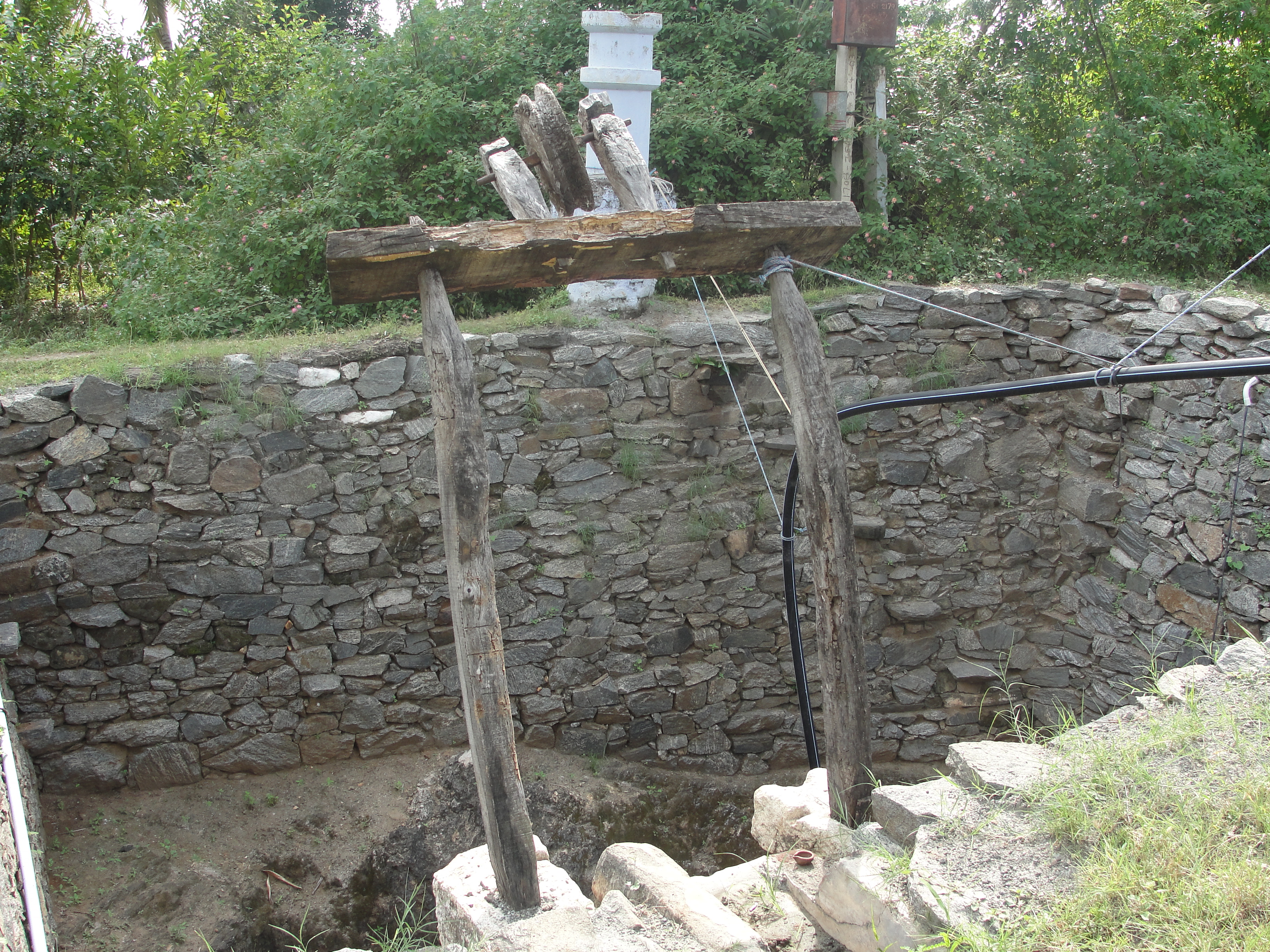 A traditional tool to drawn water from a well